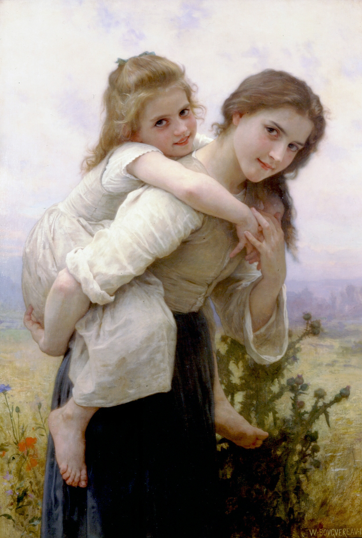 Catalogue number: 1895/08 In 2010 the painting was owned by a private collector in the USA.